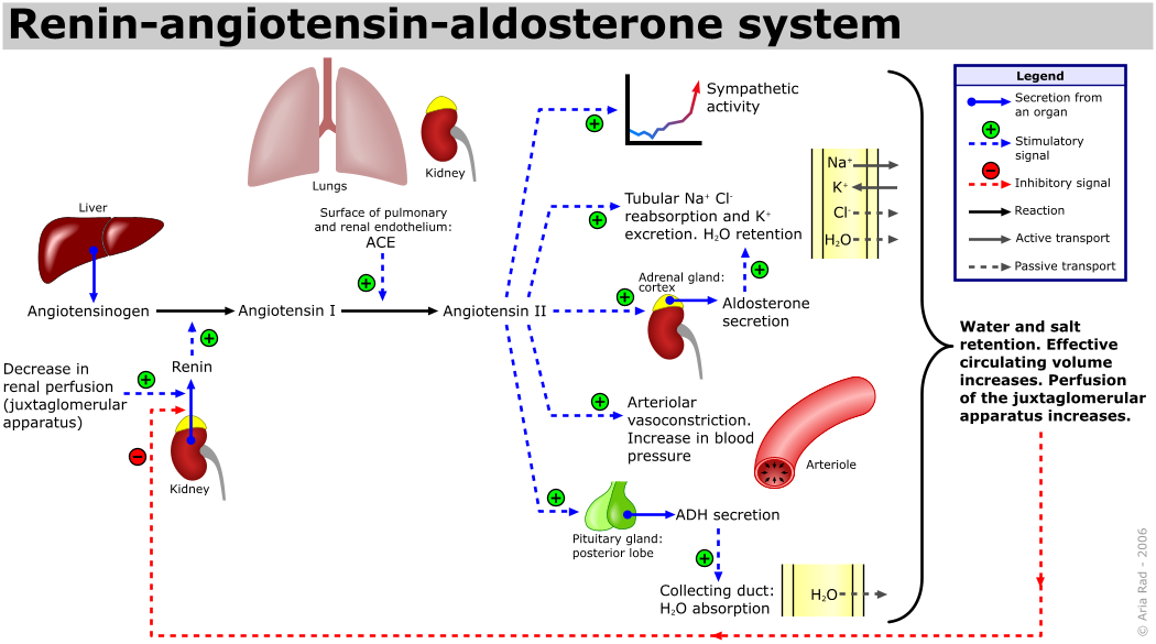 The renin-angiotensin system (RAS) or the renin-angiotensin-aldosterone system (RAAS). Start reading this schematic from the left, where it says "Decrease in renal perfusion (juxtaglomerular apparatus)". Alternatively, the RAAS can also be activated by a low NaCl concentration in the macula densa or by sympathetic activation. Legend info: Blue and red dashed arrows indicate stimulatory or inhibitory signals, which is also indicated by the +/-. In the tubule and collecting duct graphics, the grey dashed arrows indicate passive transport processes, contrary to the active transport processes which are indicated by the solid grey arrows. The other solid arrows either indicate a secretion from an organ (blue, with a starting Spot) or a reaction (black). These 2 processes can be stimulated or inhibited by other factors.